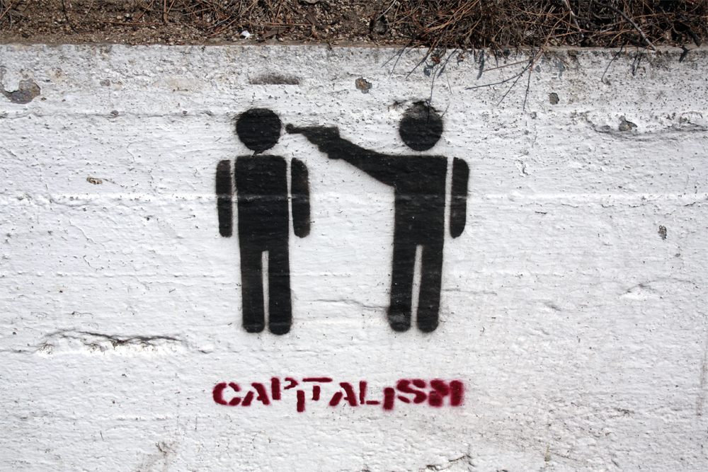 Roadside stencil from Northern Greece